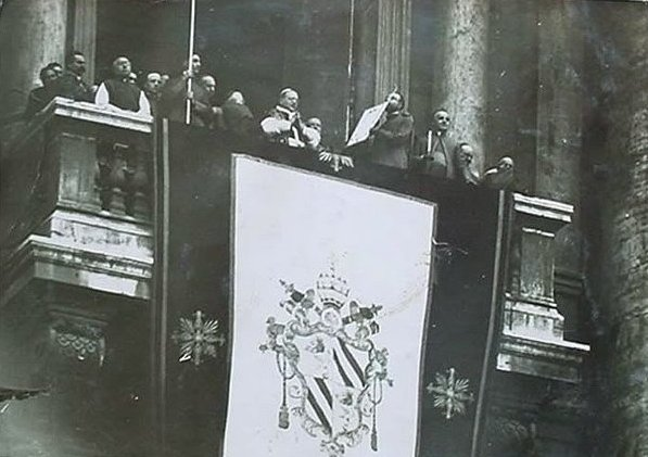 first blessing of Pius XI